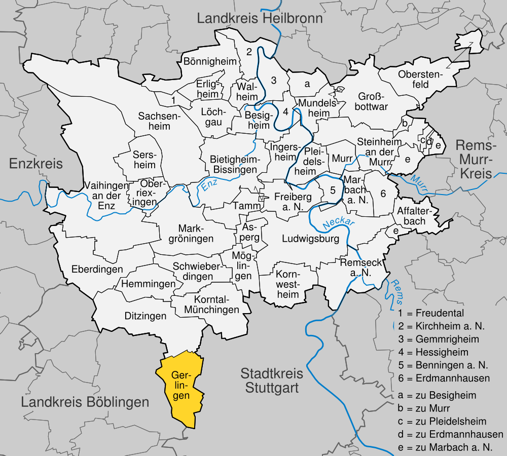 position of Gerlingen within distict of Ludwigsburg, Baden-Württemberg, Germany